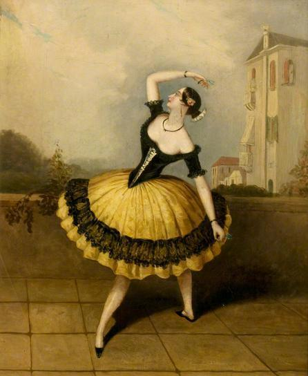 Dancer Marie Guy-Stéphan in "Las Boleras de Cádiz" (The alleys of Cádiz) from the ballet divertissement L'Aurore at Her Majesty's Theatre in London in 1843